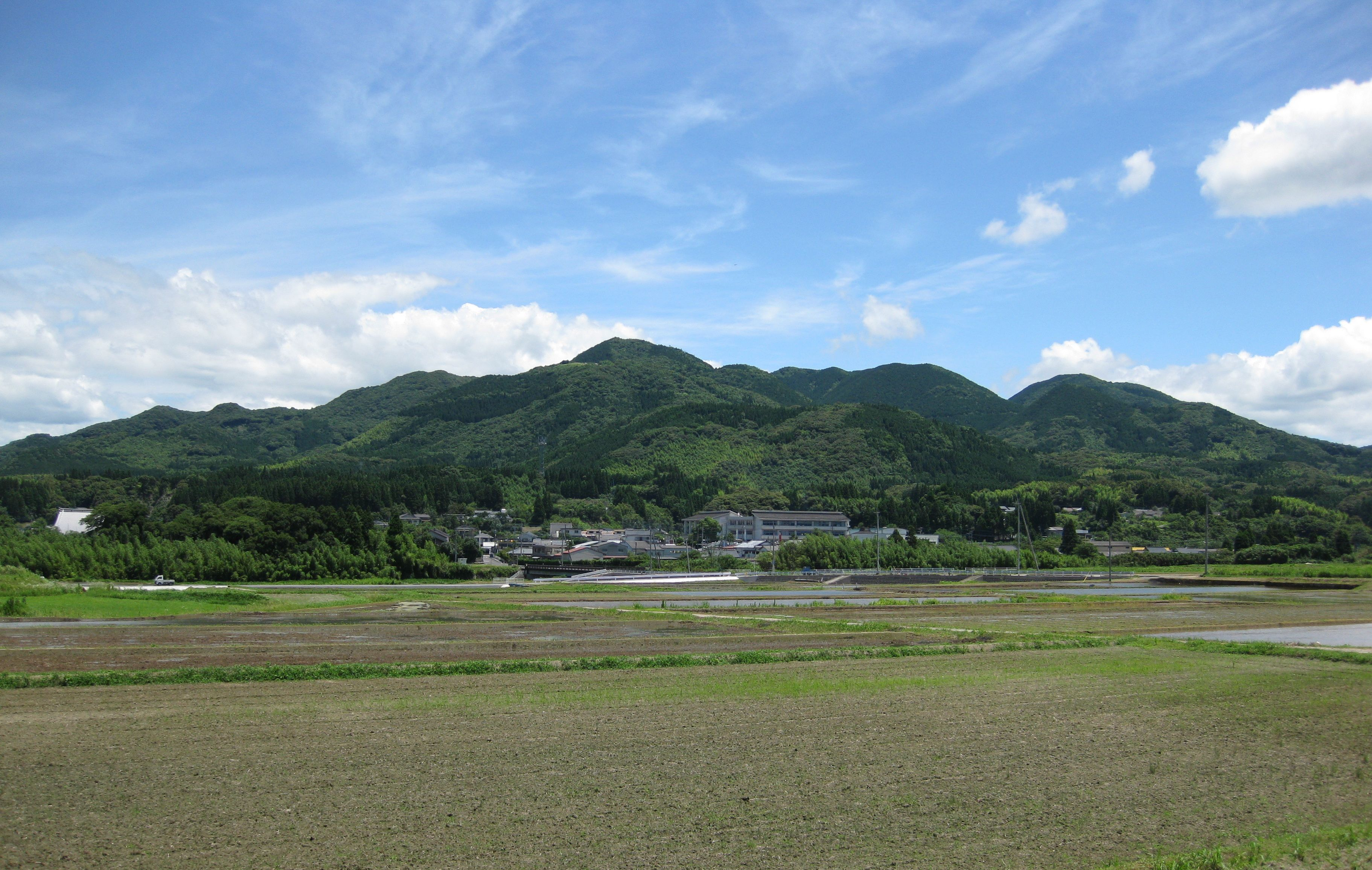 Imuta Volcanoes rises around the Lake Imutaike in Kagoshima, Japan